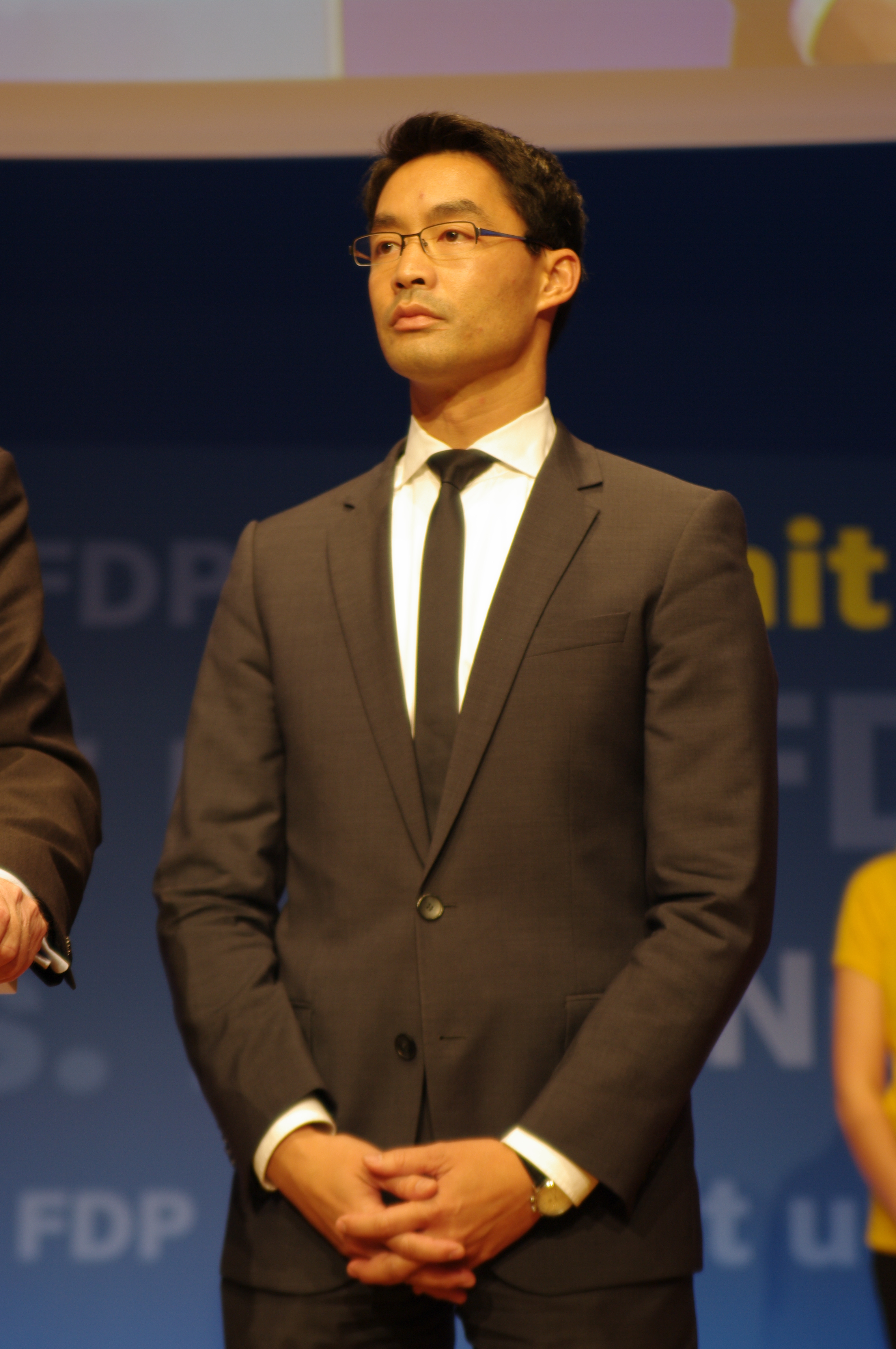 The federal election party FDP in Berlin Congress Center for the parliamentary election in 2013